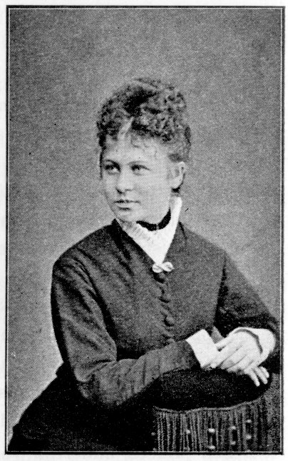 Ida Aalberg, Finnish actress.